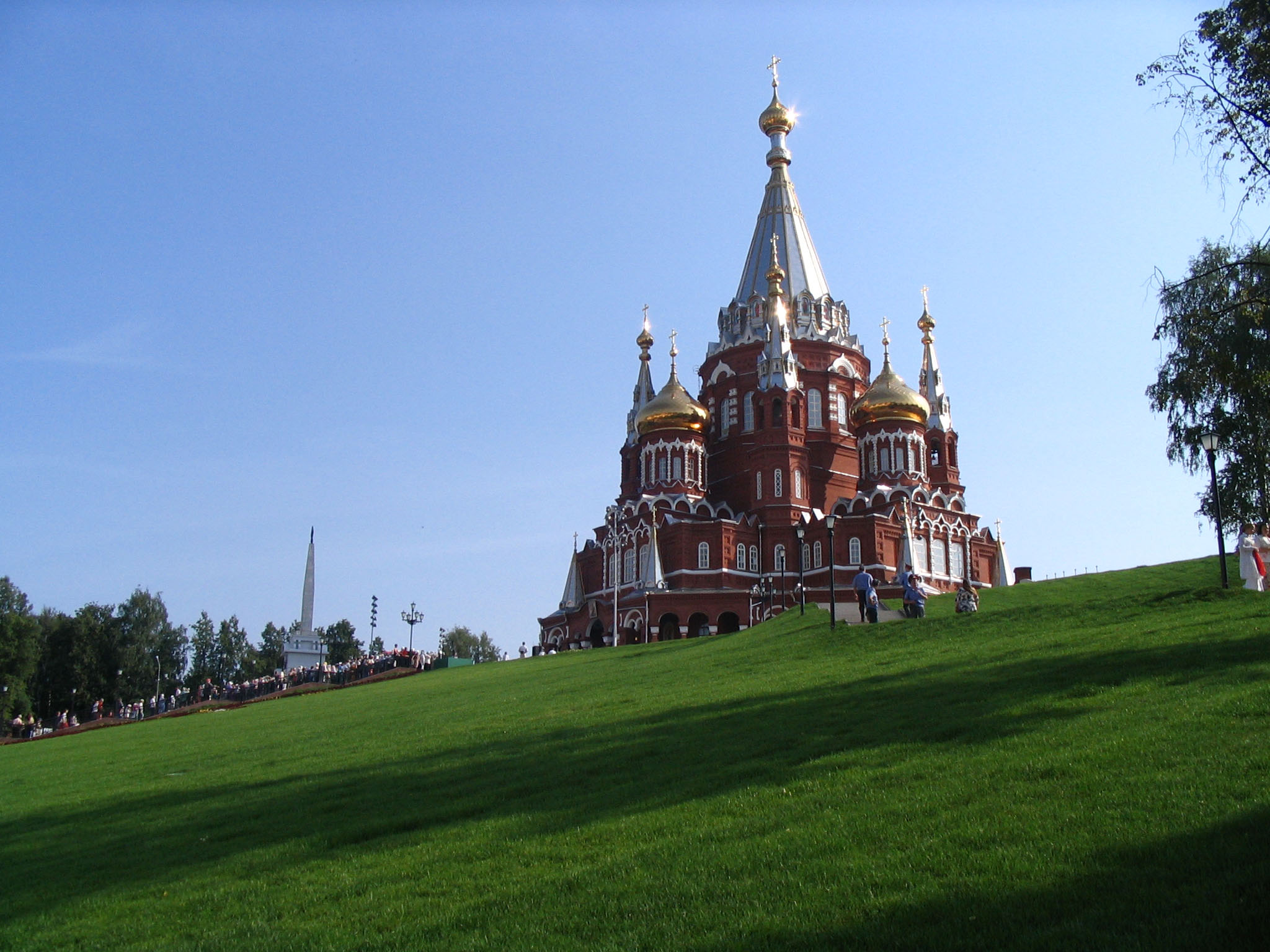 Church in Izhevsk, Russia